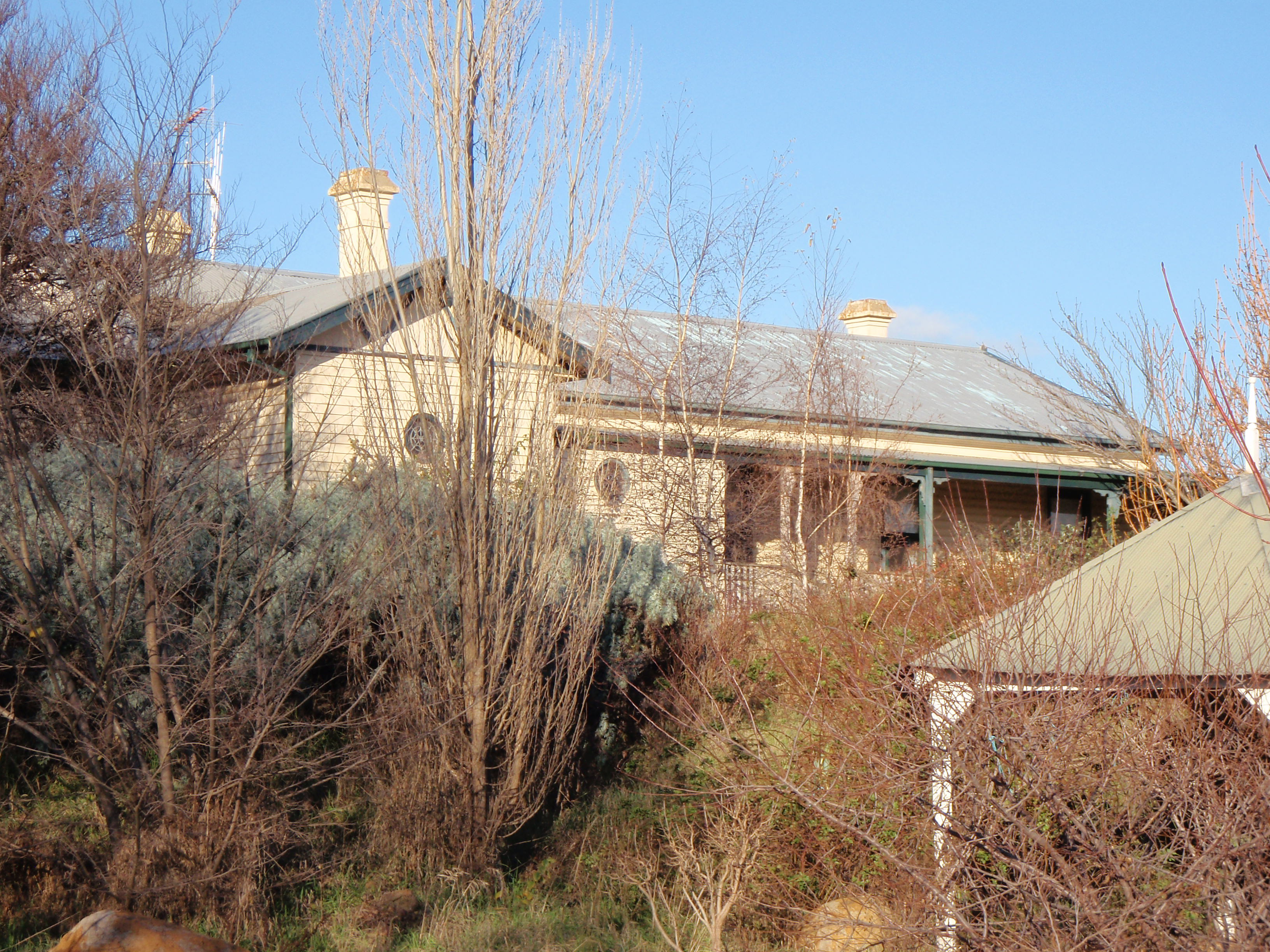 The former Lancefield railway station, Lancefield, Victoria, opened c. 1881, officially closed 1956.